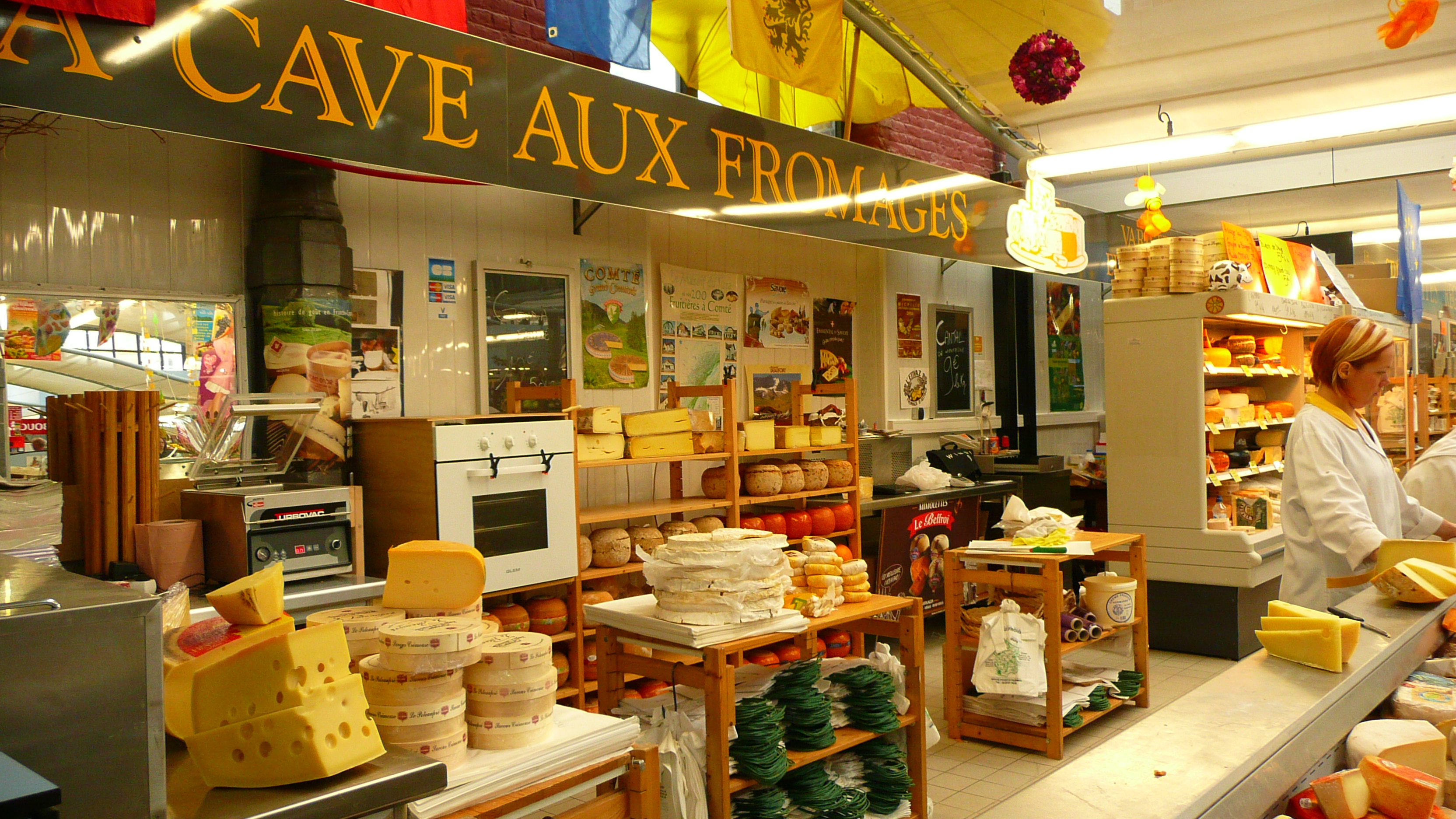 A cheese shop in a market in Lille, France, showing many different varieties of cheese.